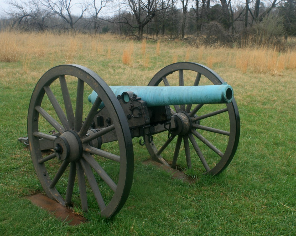 Manassas, 13-pounder James Rifled Gun